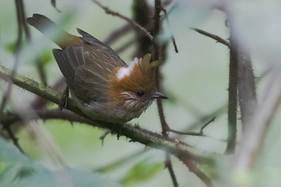 The species White-naped Yuhina had been photographed from Khangchendzonga Biosphere Reserve in West Sikkim, India during GoingWild's birding tour on 25.10.2015.